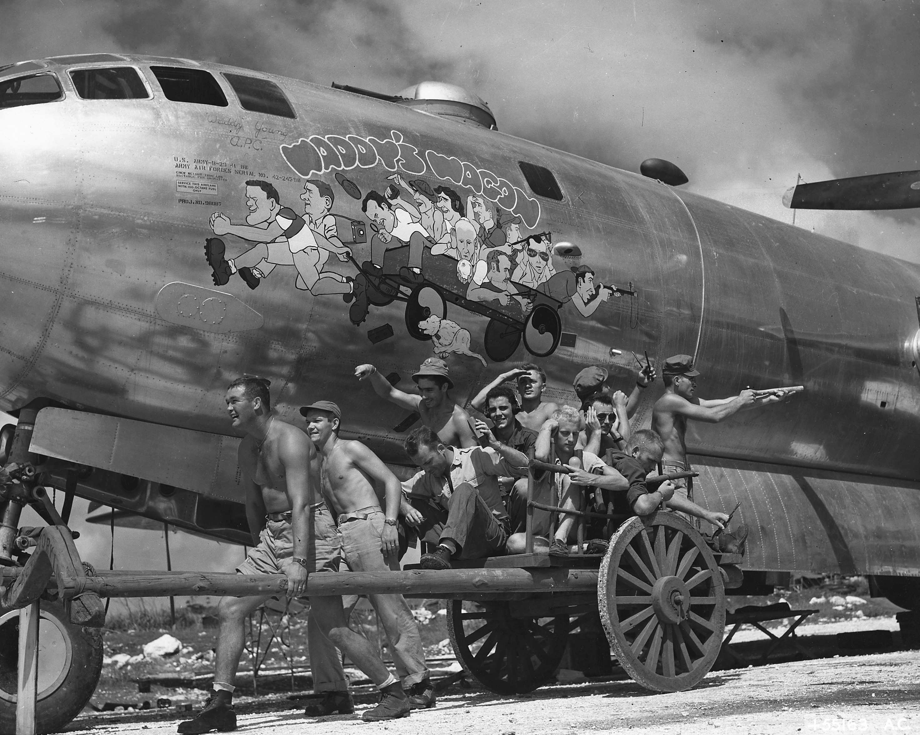 Scope and content: B-29 Men bombed Tokyo. The crew of "Waddy's Wagon", fifth B-29 to take off on the initial Tokyo mission from Saipan, and first to land after bombing the target. Crew members, posing here to duplicate their caricatures on the plane, are : Plane C. O., Capt. Walter R. "Waddy" Young, Ponca City, Okla., former All-American end; Lt. Jack H. Vetters, Corpus Christi, Texas, pilot; Lt. John F. Ellis, Moberly, Mo., bombardier; Lt. Paul R. Garrison, Lancaster, Pa., navigator; Sgt. George E. Avon, Syracuse, N.Y., radio operator; Lt. Bernard S. Black, Woodhave, L.I., Flight Engineer; Sgt. Kenneth M. Mansie of Randolph, Me., Tech., and gunners - Sgts. Lawrence L. Lee, Max, N.D.; Wilbur J. Chapman, Panhandle, Texas; Corbett L. Carnegie, Grindstone Island, N.Y.: and Joseph J. Gatto, Falconer, N.Y. General notes: The crew of the USAAF Boeing B-29-40-BW Superfortress (s/n 42-24598) "Waddy's Wagon", 20th Air Force, 73rd Bomb Wing, 497th Bomb Group, 869th Bomb Squadron. This aircraft was lost on 9 January 1945.